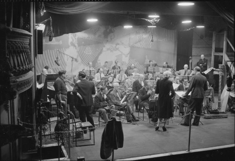 The Laugh!- the Recording of the Radio Comedy 'itma', London, England, UK, 1945 Charlie Shadwell (right) prepares to conduct the BBC Variety Orchestra during the recording of an episode of 'It's That Man Again'. On his left is Ann Rich, the 'ITMA' singer who succeeded Paula Green. To the left of the photograph, producer Francis Worsley chats to broadcaster Ronnie Waldman.